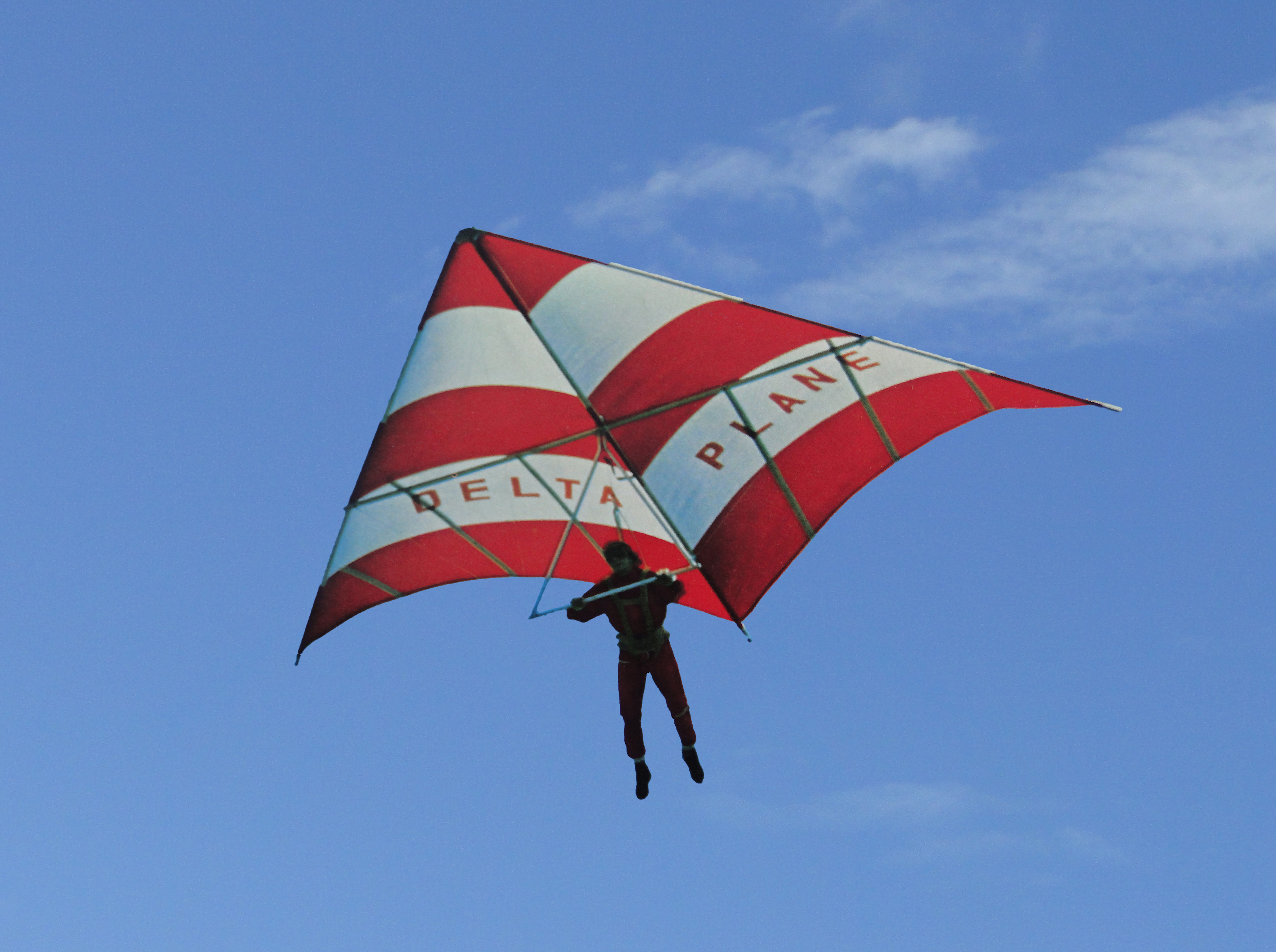 DELTA-PLANE first series of 1973 in flight.